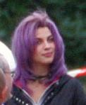 Natalia Tena plays Nymphadora Tonks at the OotP Set